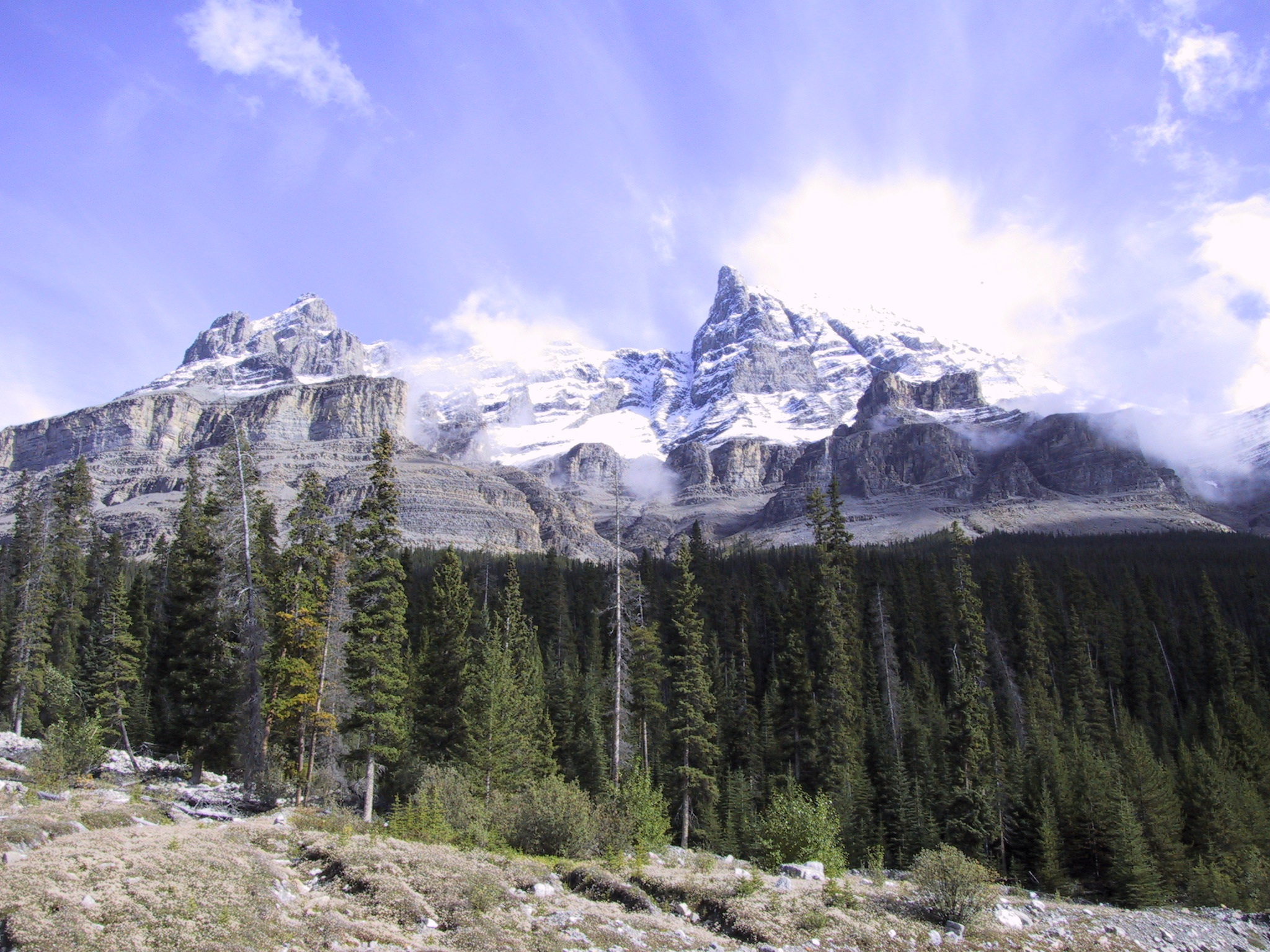 The north aspect of Mount Murchison in Banff National Park in Canada